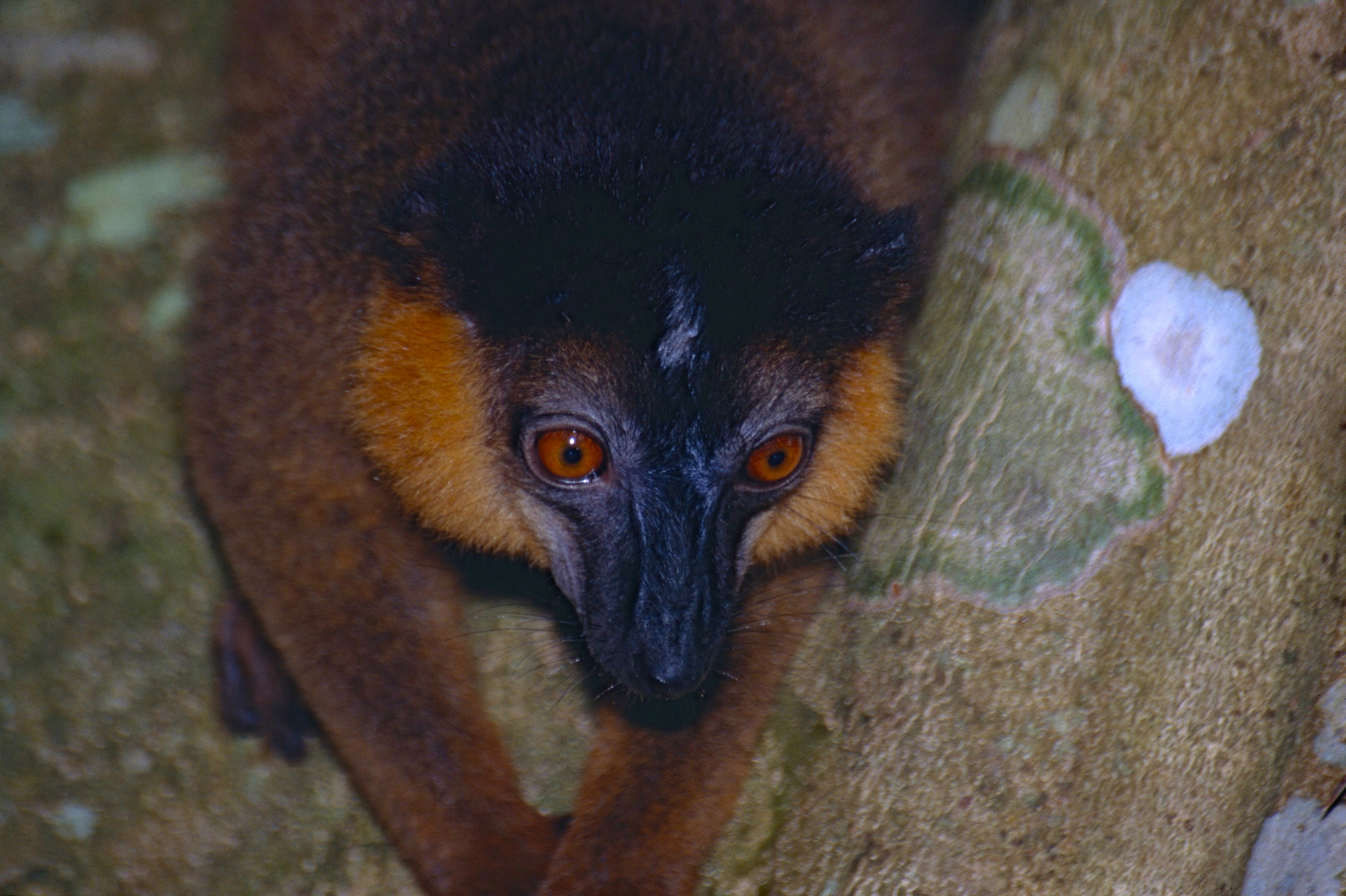 Nahampoana Reserve, Tolagnaro, MADAGASCAR Scanned Slide from 1998